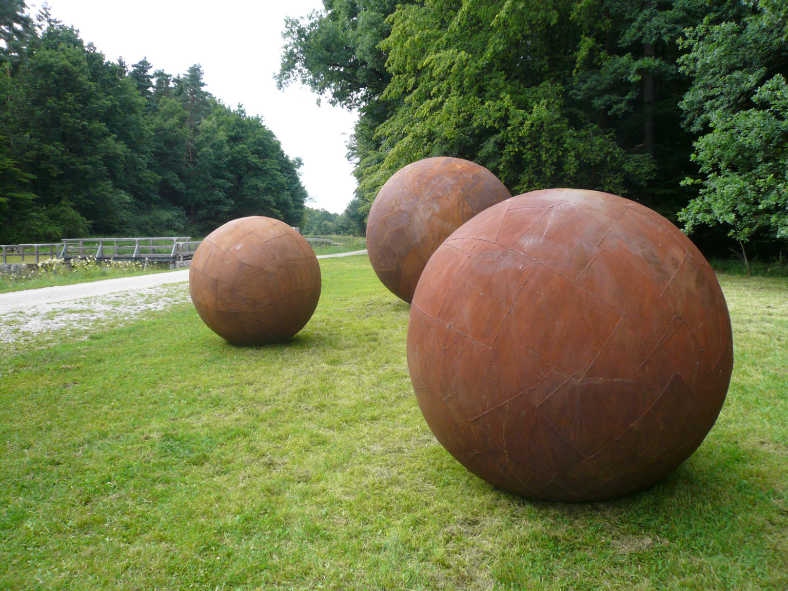 Iron balls from Ute Lechner and Hans Thurner (Obing, Bavaria, Germany) established 30. June 2007 at the "Ludwigskanal" between Unterölsbach and Berg